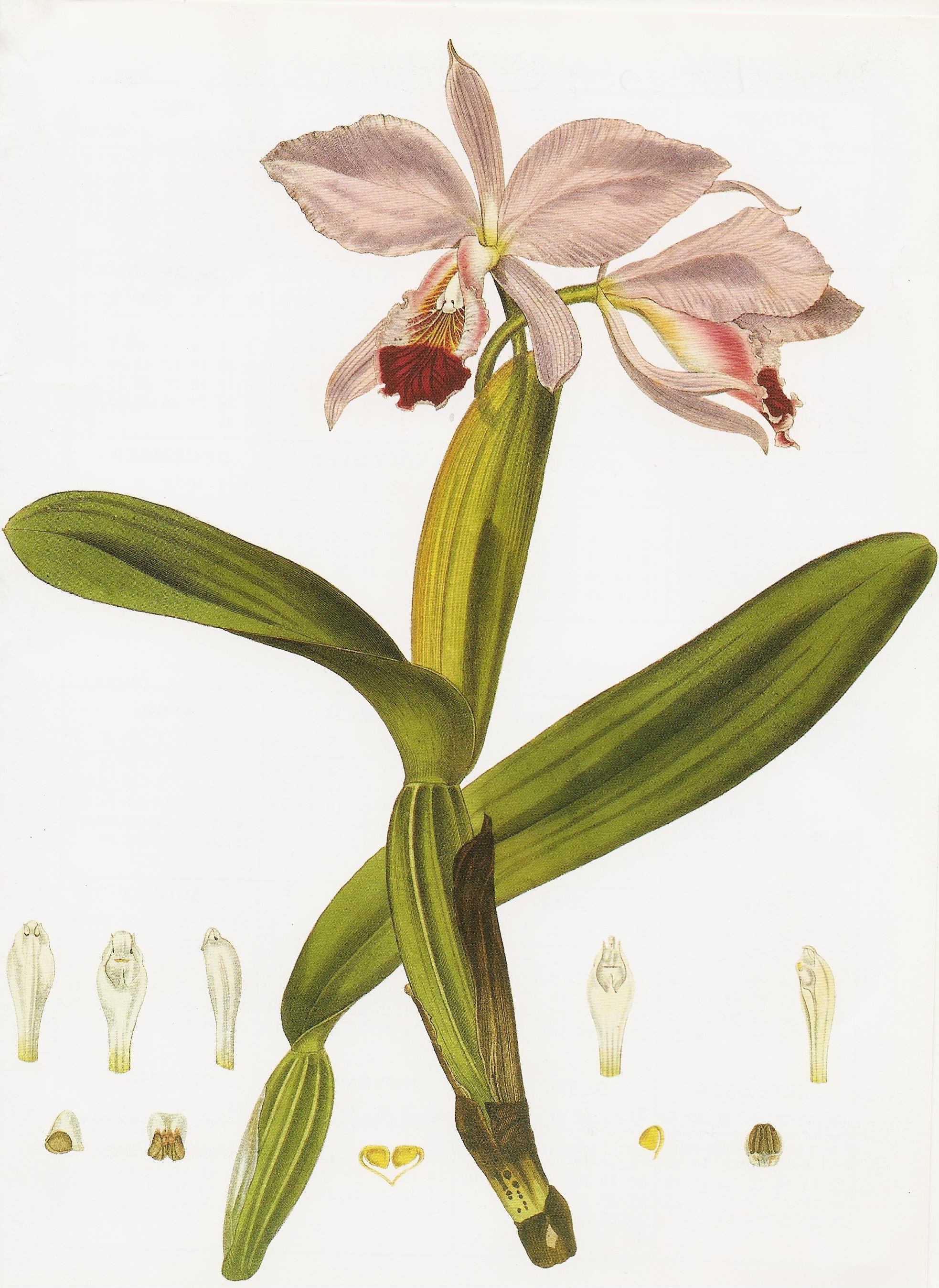 Cattleya labiata, a hand-coloured engraving after a drawing by John Lindley from his Collectanea botanica (1821). Lindley named this genus, of which this is the type specimen, in honour of his patron William Cattley.